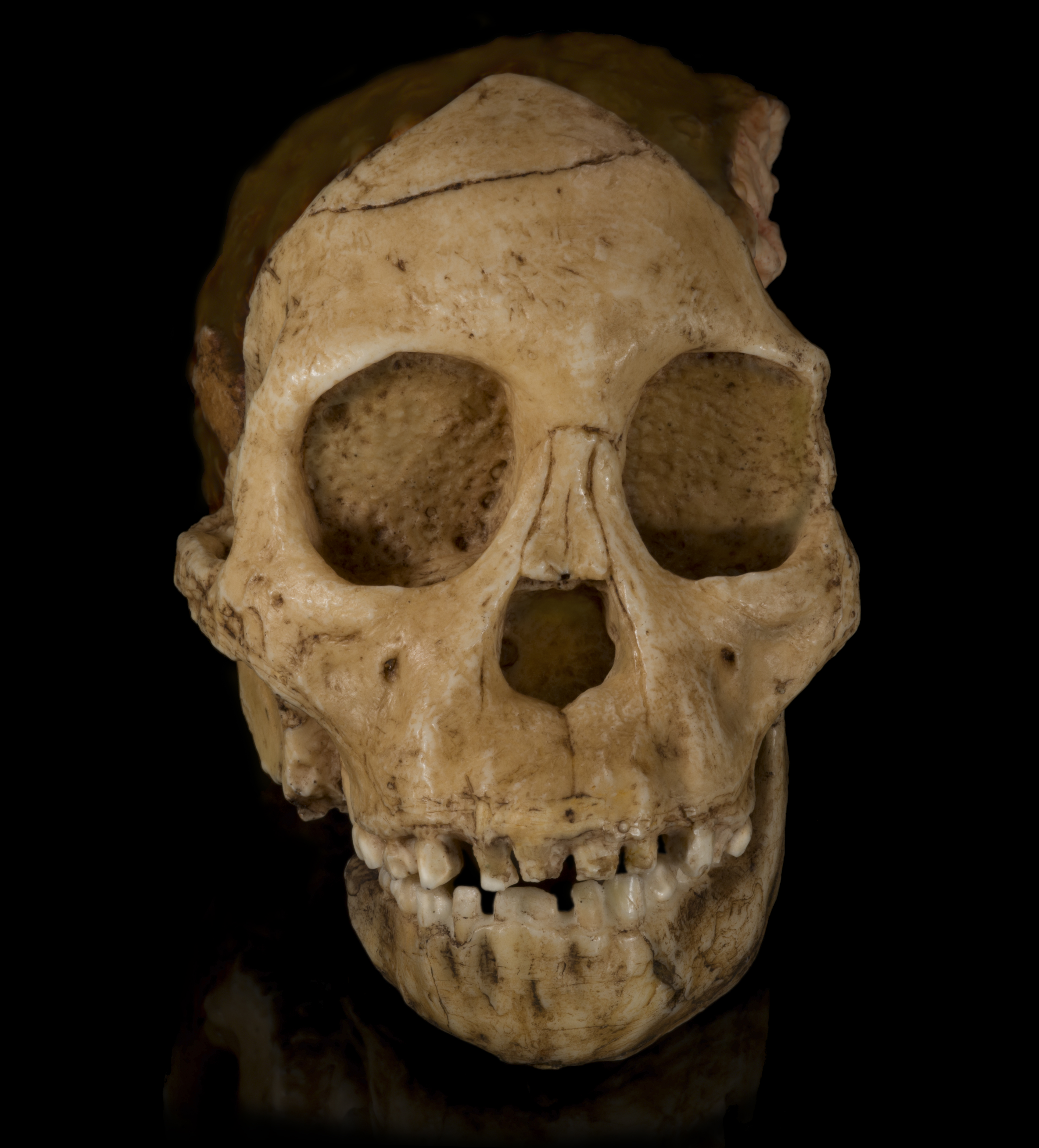 Cast in three parts: endocranium face and mandible, of a 2.1 million year old Australopithecus africanus specimen so-called Taung child, discovered in South Africa. Collection of the University of the Witwatersrand (Evolutionary Studies Institute), Johannesburg, South Africa. Sterkfontein cave, hominid fossil